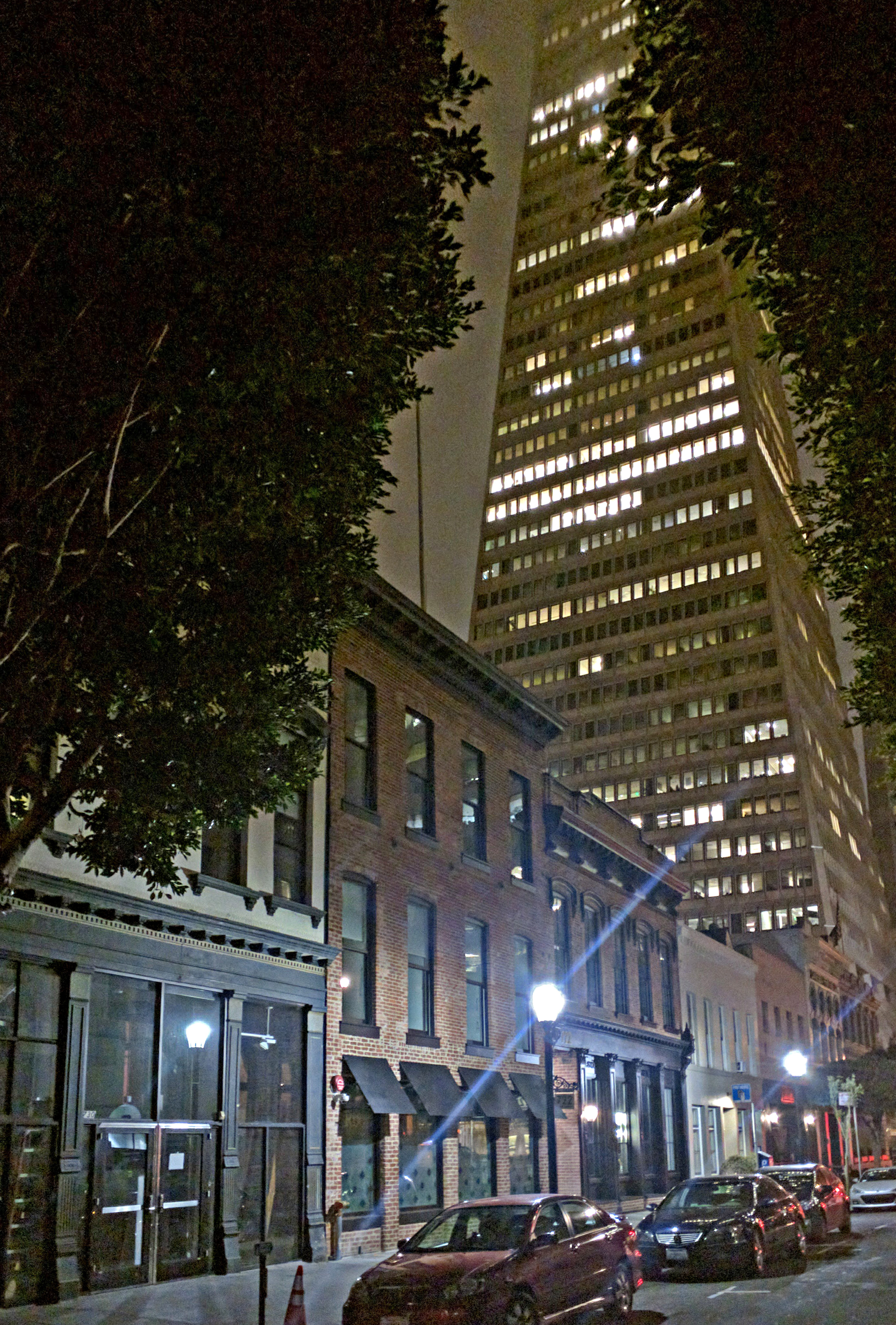 Night shot of the Goldern Era Building (left), the Genella Building or Belli Annex (center), and the Belli Building (previously Langerman's Tobacco and Segar Warehouse, with the Transamerica Pyramid behind, not much over a block away). and